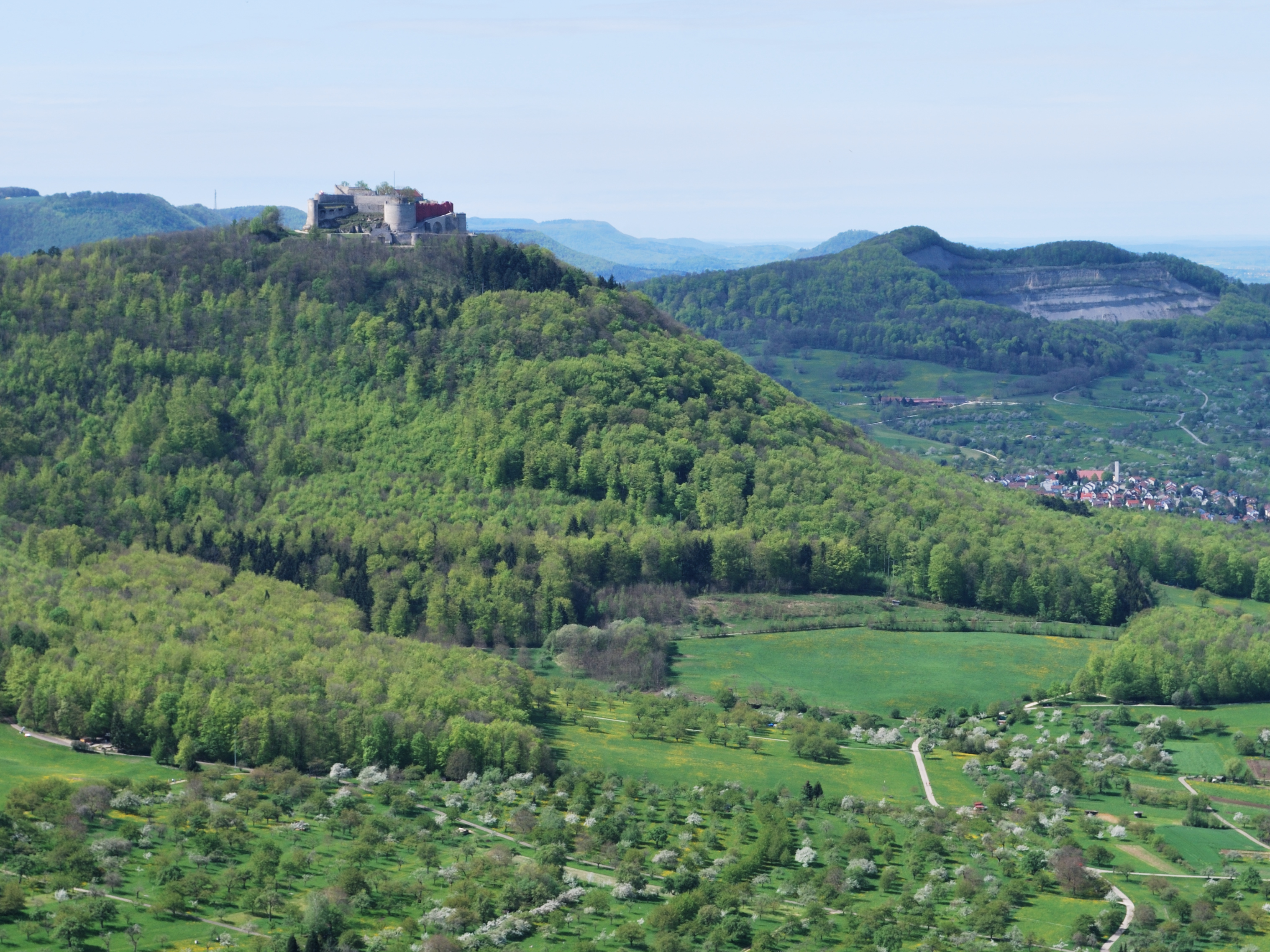 The Hohenneuffen Castle in Swabian Jura in the German Federal State Baden-Württemberg, seen from the Beuren Rock.